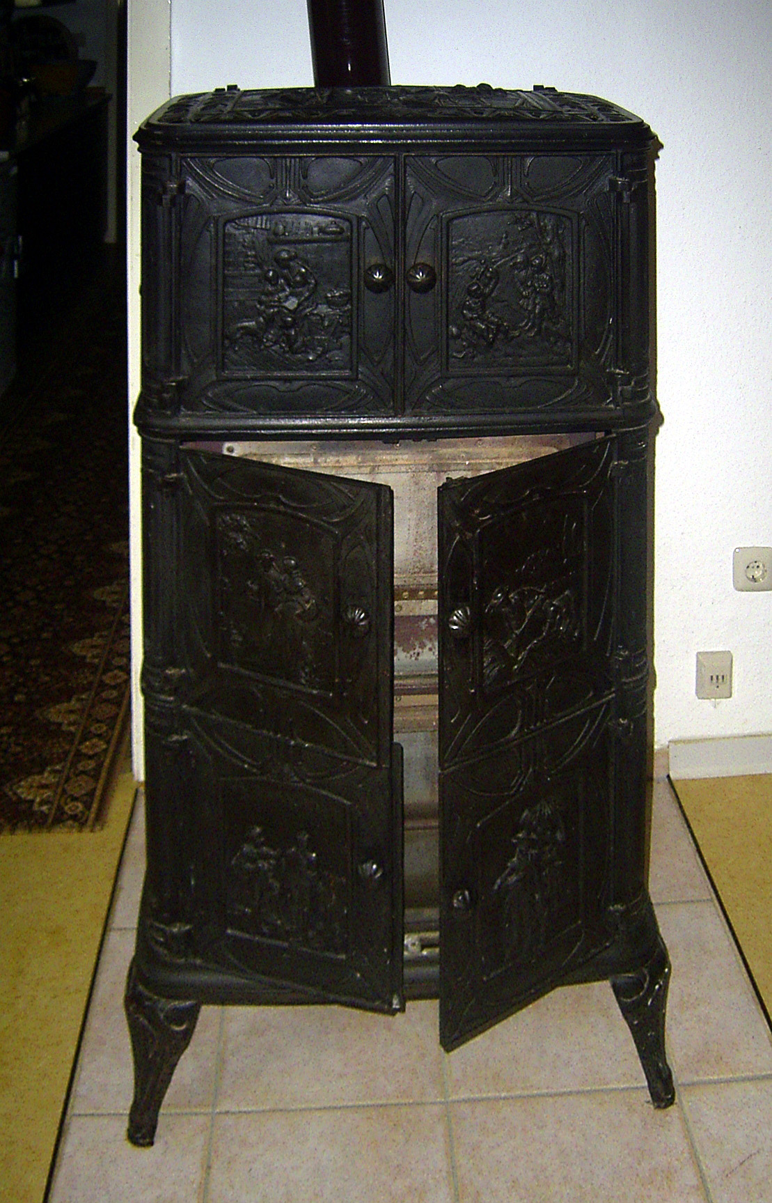 A cast iron stove